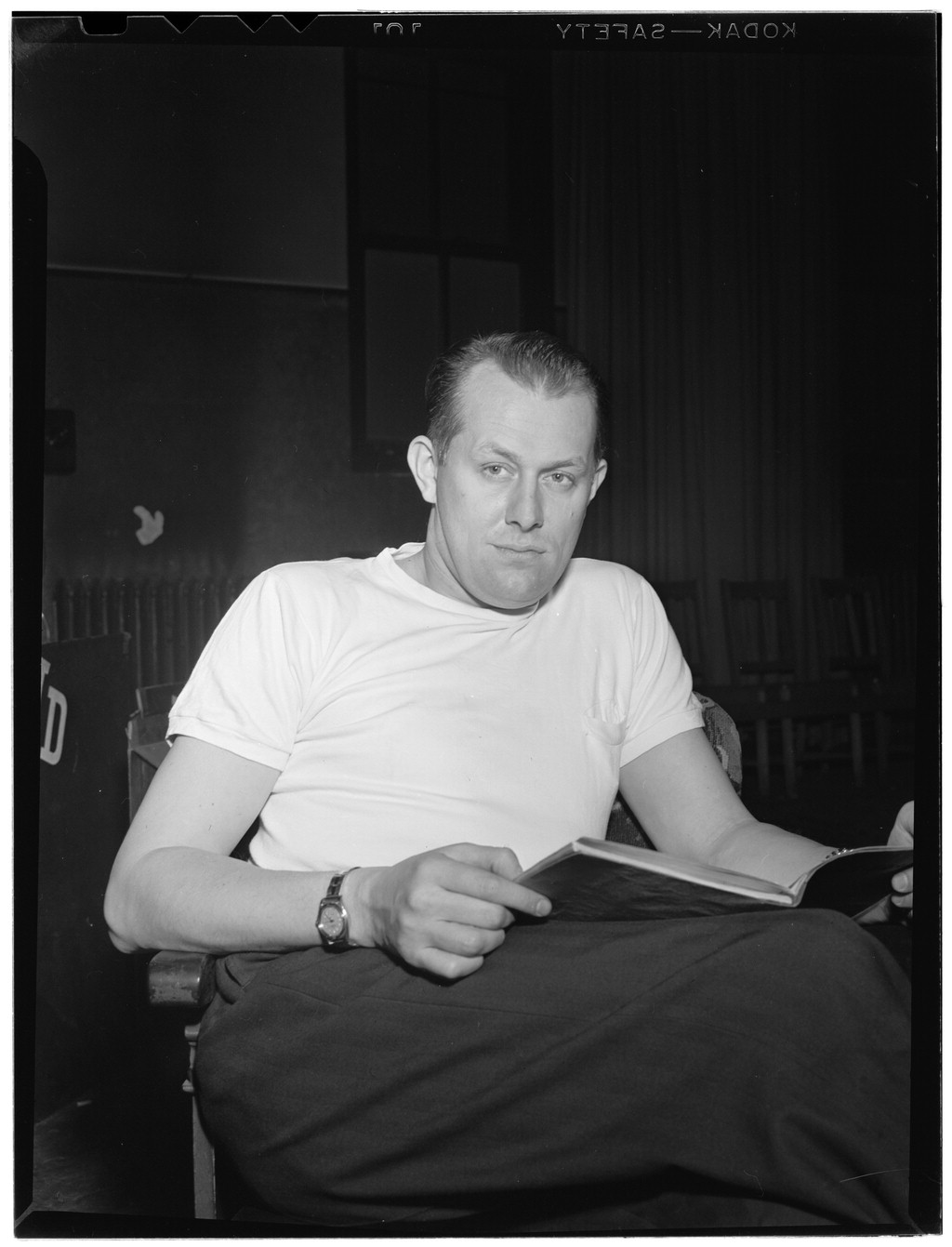 Portrait of Vaughn Monroe, New York, N.Y.